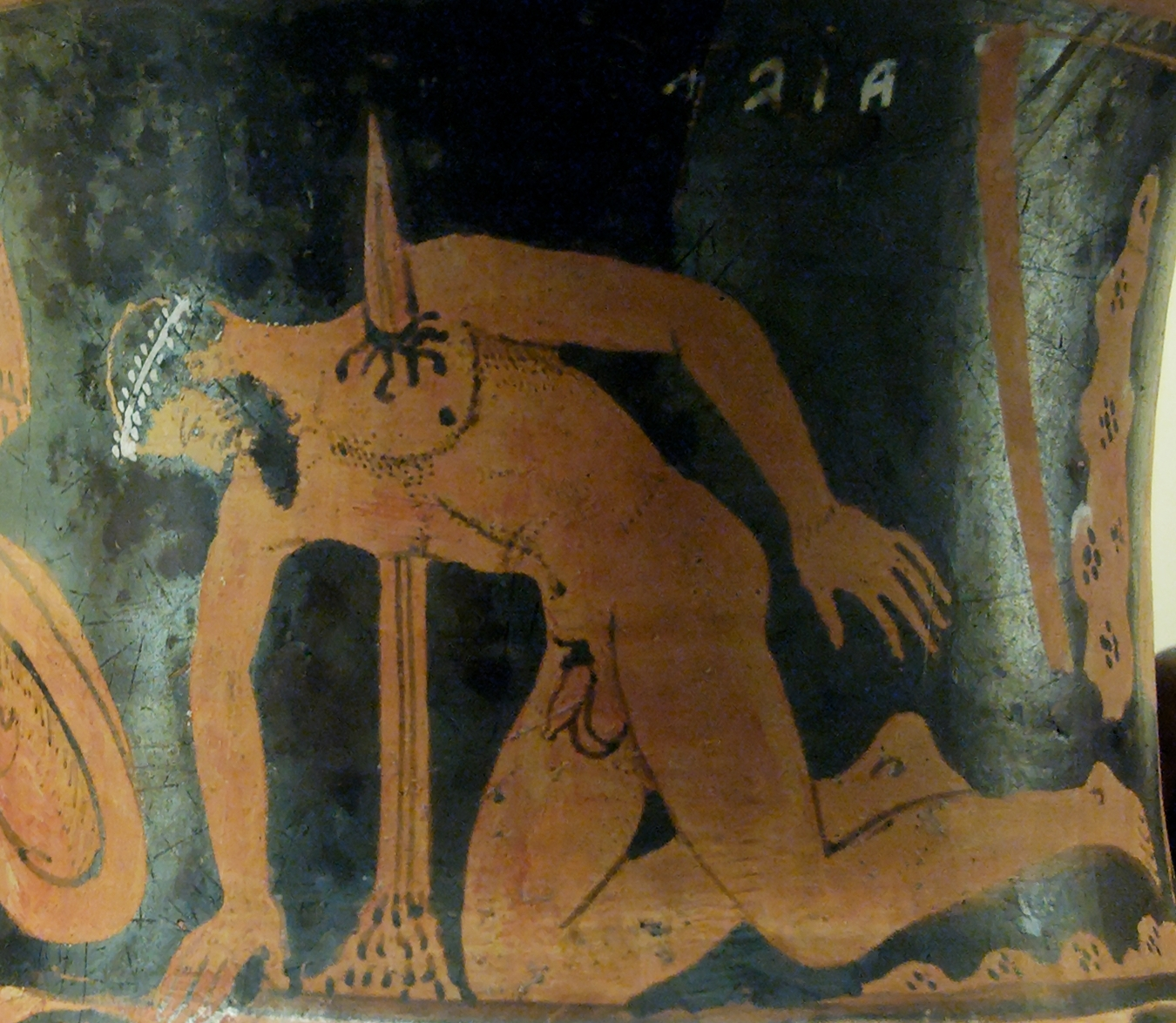 The suicide of Ajax the Great. Etrurian red-figured calyx-krater, ca. 400–350 BC. Said to be from Vulci.